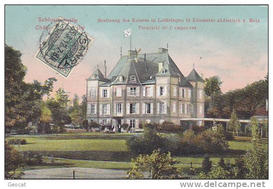 carte postale